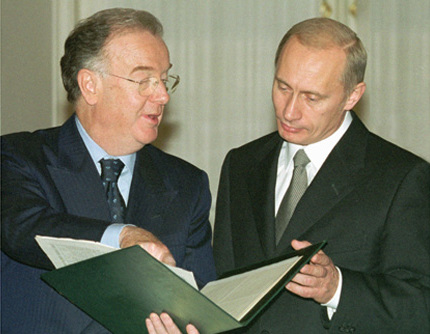 THE KREMLIN, MOSCOW. Portuguese President Jorge Sampaio presenting to President Putin instructions compiled by Alexander Gorchakov.